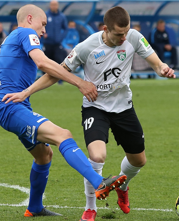 Aleksei Skvortsov with FC Tosno in a game against FC Dynamo Moscow.